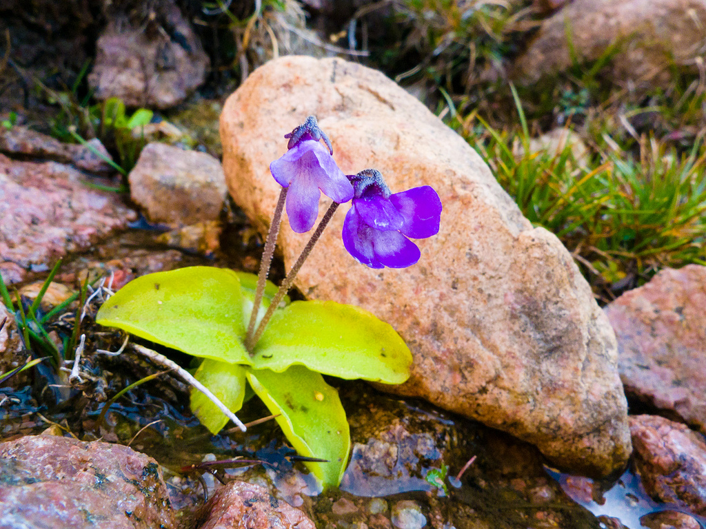 Flowering butterwort Pinguicula corsica at mid altitude (ca. 1200 m) near Évisa in Corsica, France